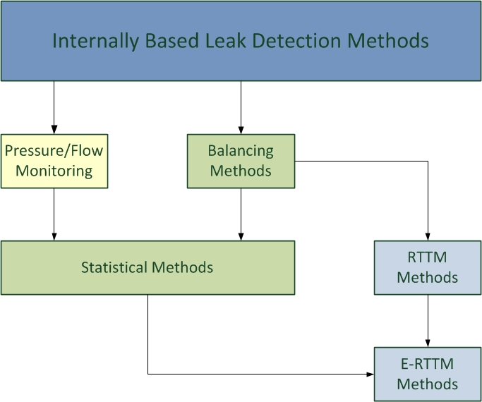 Overview of methods of internally based leak detection systems (LDS) according to API RP 1130 (2007).